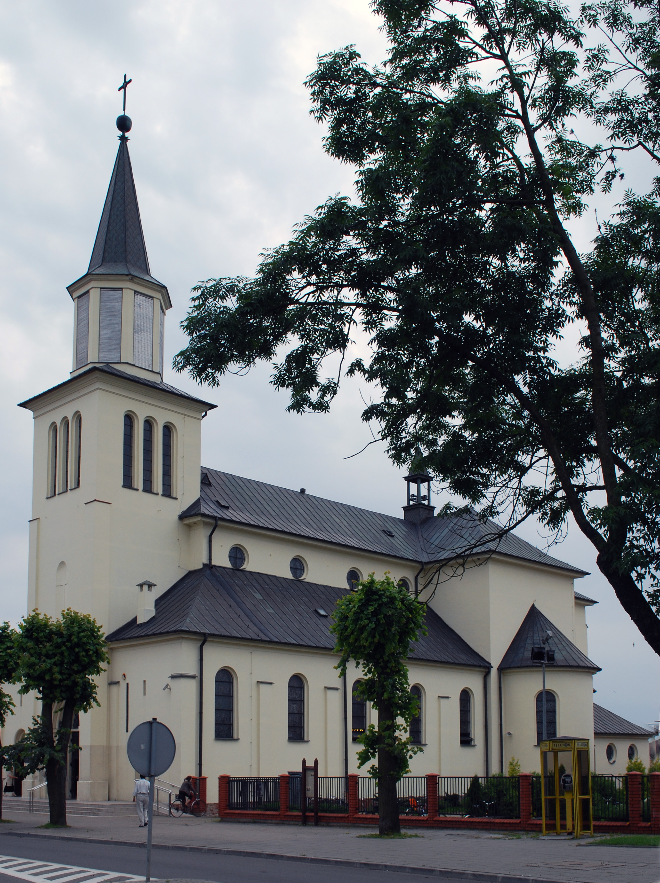 This photo from Podlaskie Voievodeship was taken during Polish Wikiexpedition 2009 set up by Wikimedia Polska Association. The making of this document was supported by Wikimedia Polska. Kosciól Podwyzszenia Krzyza w Hajnówce